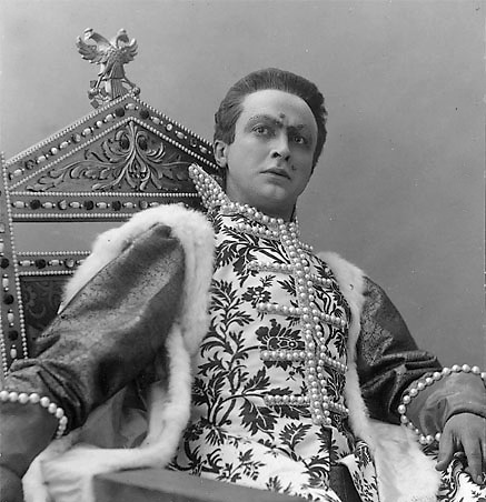 Alexander Ostuzhev as False Dmitry I, August 1909.